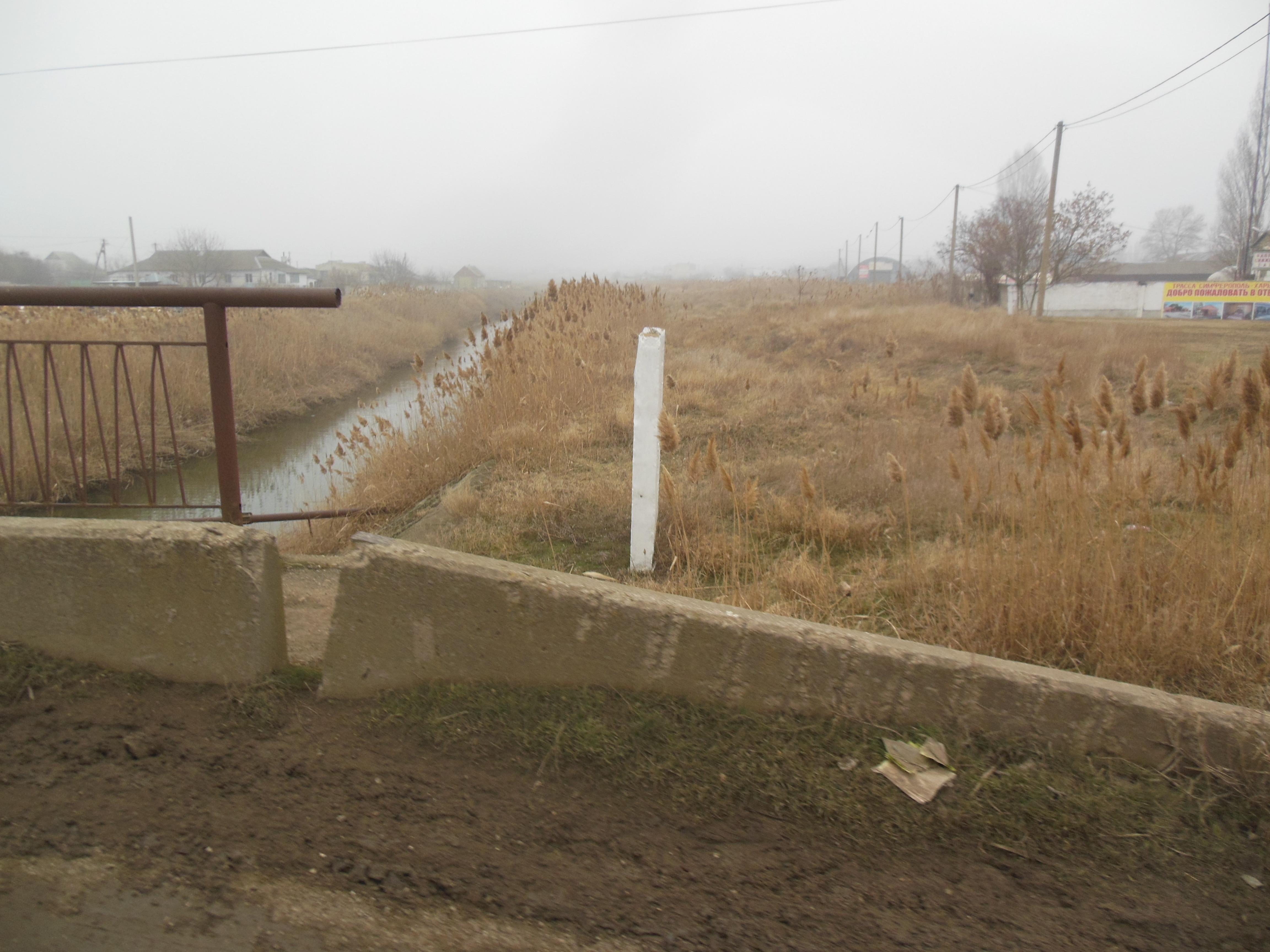 River Mirnovka Crimea.